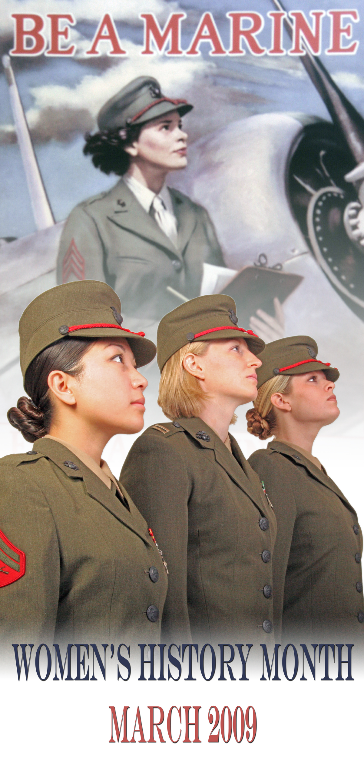 Marines of the 9th Marine Corps District, are seen in this recreation of a world war era recruiting poster directed toward the recruitment of women.